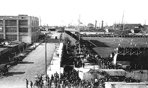 The River Plate stadium located in La Boca district of Buenos Aires. The club stayed here from 1915 to 1923 when it moved to Alvear and Tagle in Recoleta.